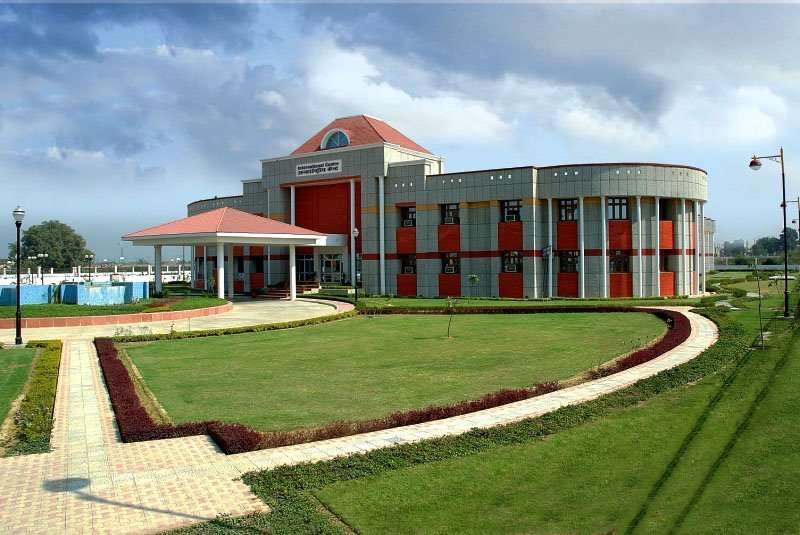 Individual Work